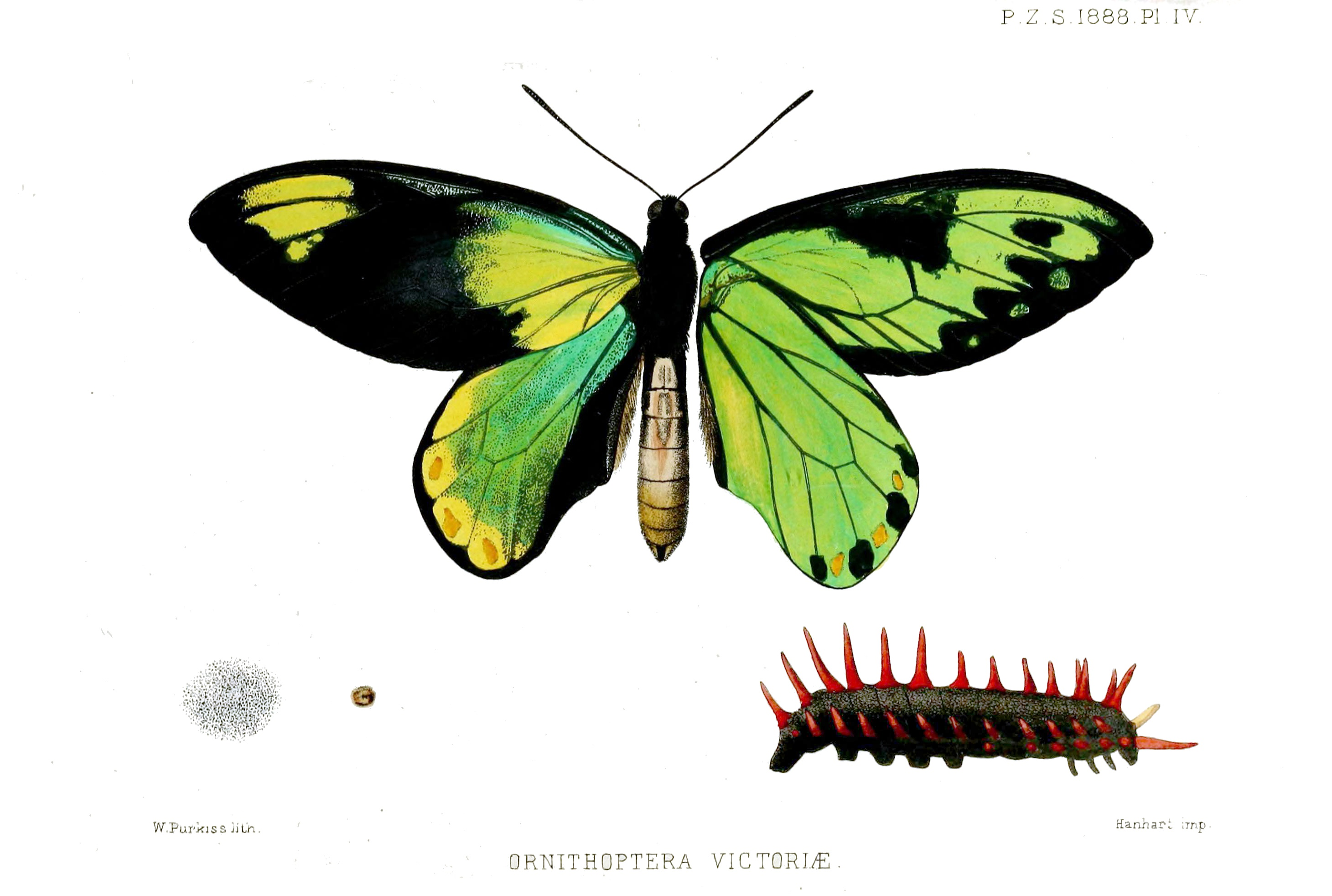 Adult male (upperwing and underwing), egg with structure of surface, half-grown caterpillar